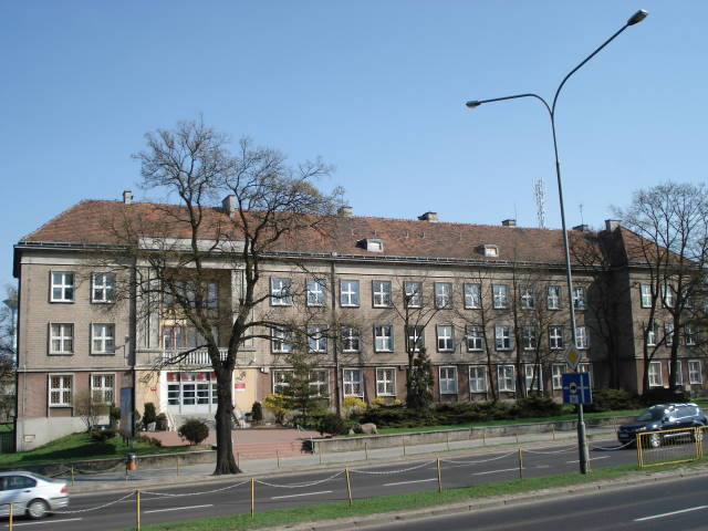 Dąbrówka Grammar School No. 7 in Poznań